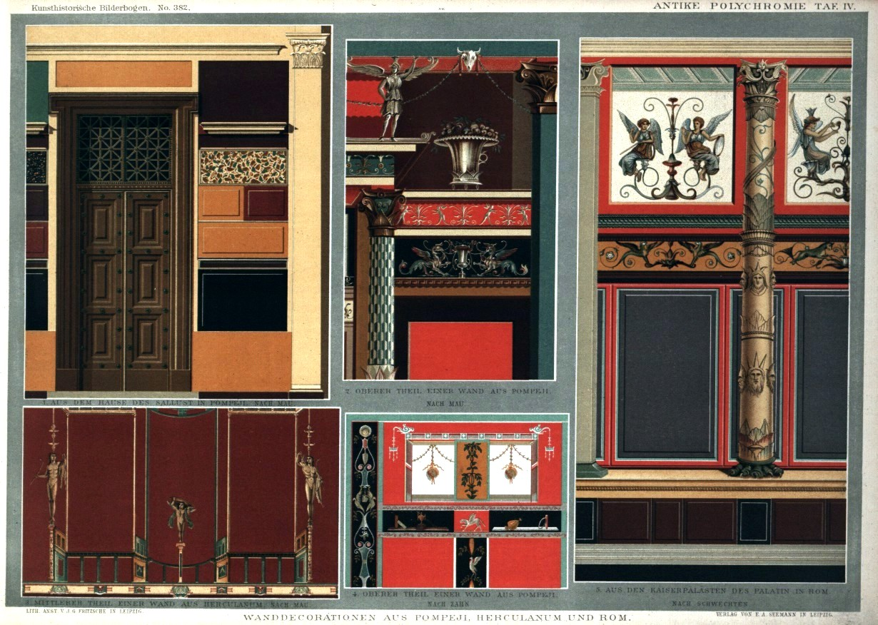 Coloured details of classic roman architecture.